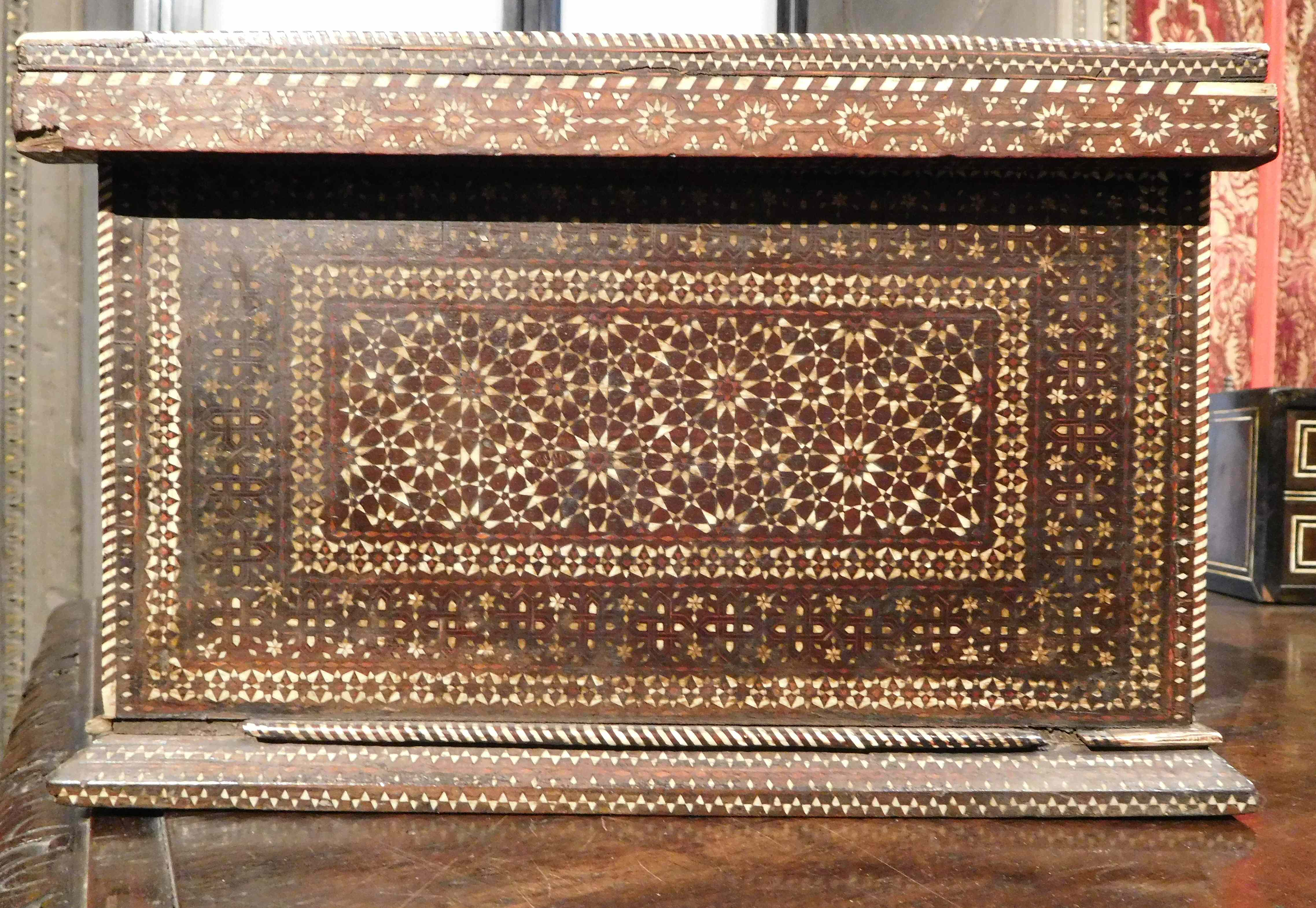 Wooden box inlaid with ivory in floral and zellige-like geometrical motifs Italy (Florence or Venice) 15th century. Bagatti Valsecchi Museum, Milan.